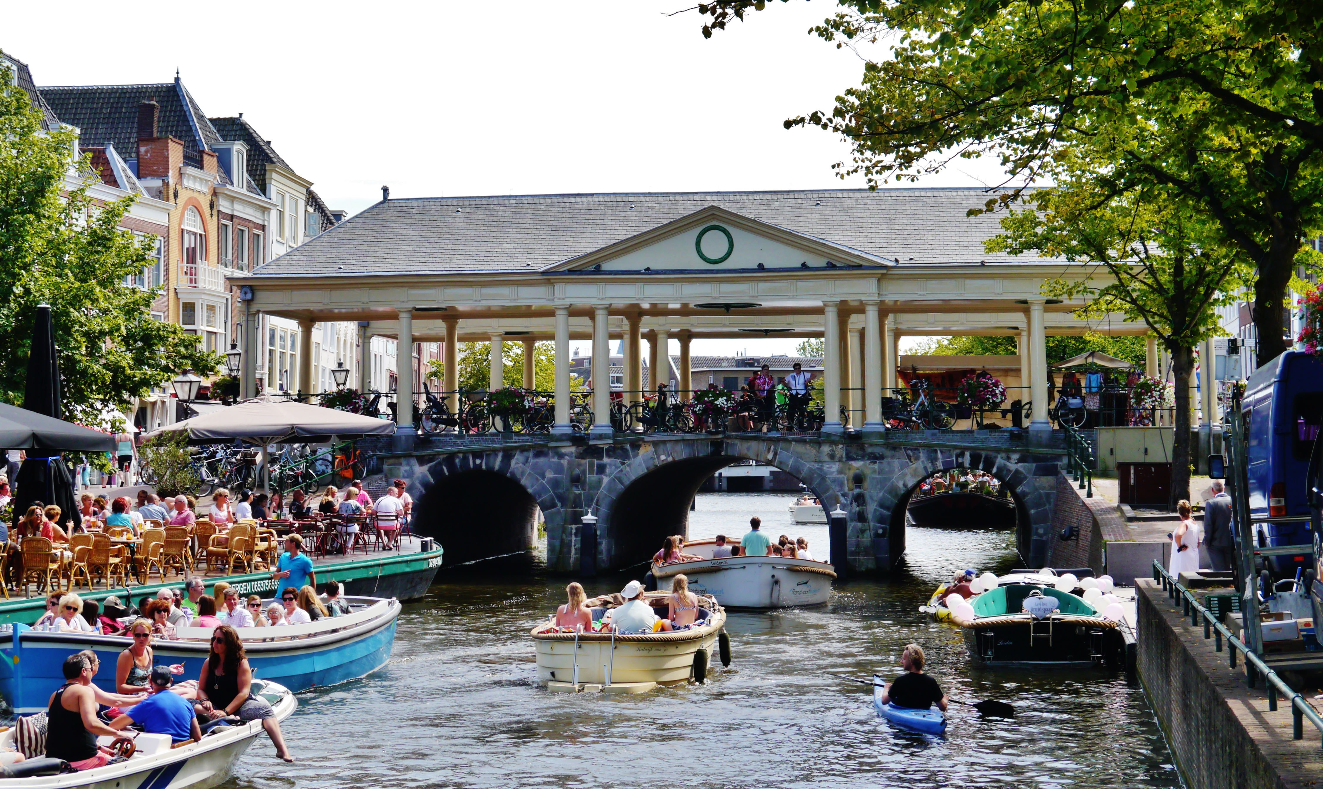 Grain Bridge, Leiden, Province of South Holland, Netherlands